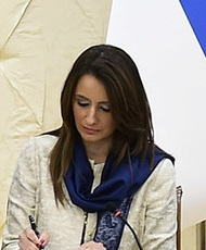 Nela Kuburovic